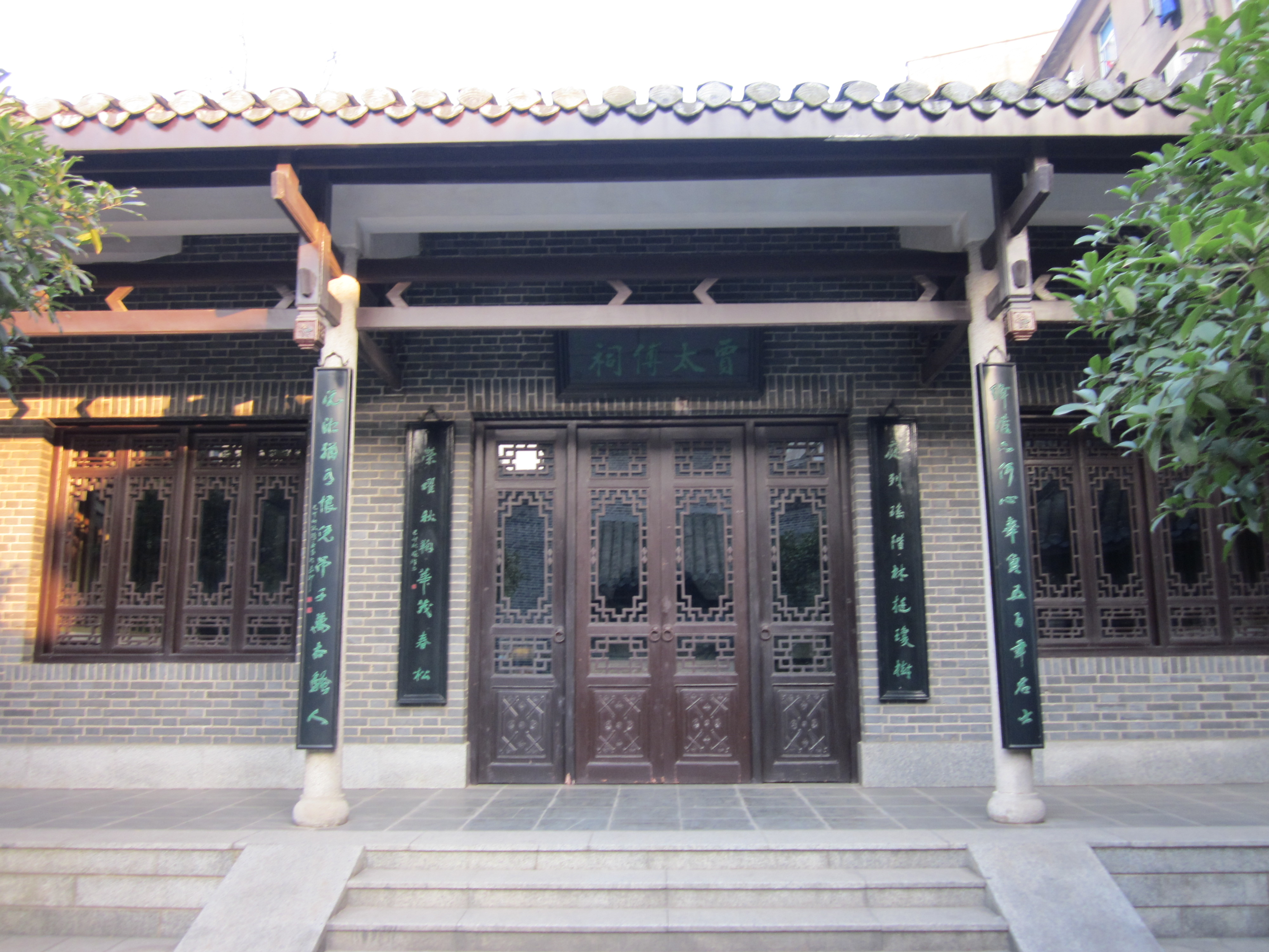 Former residence is located in China jia yi changsha in hunan liberation west road and peace at the street corner, the former residence of hunan province jia yi is protected units of cultural relics.